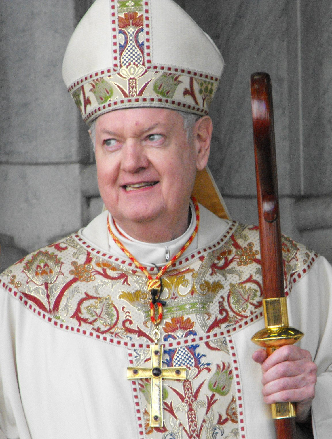 Cardinal Edward Egan, appearing outside St Patrick's Cathedral after Easter Mass, April 12, 2009. He stepped down as Cardinal three days later, on April 15, 2009.